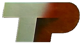 The first TVP logo